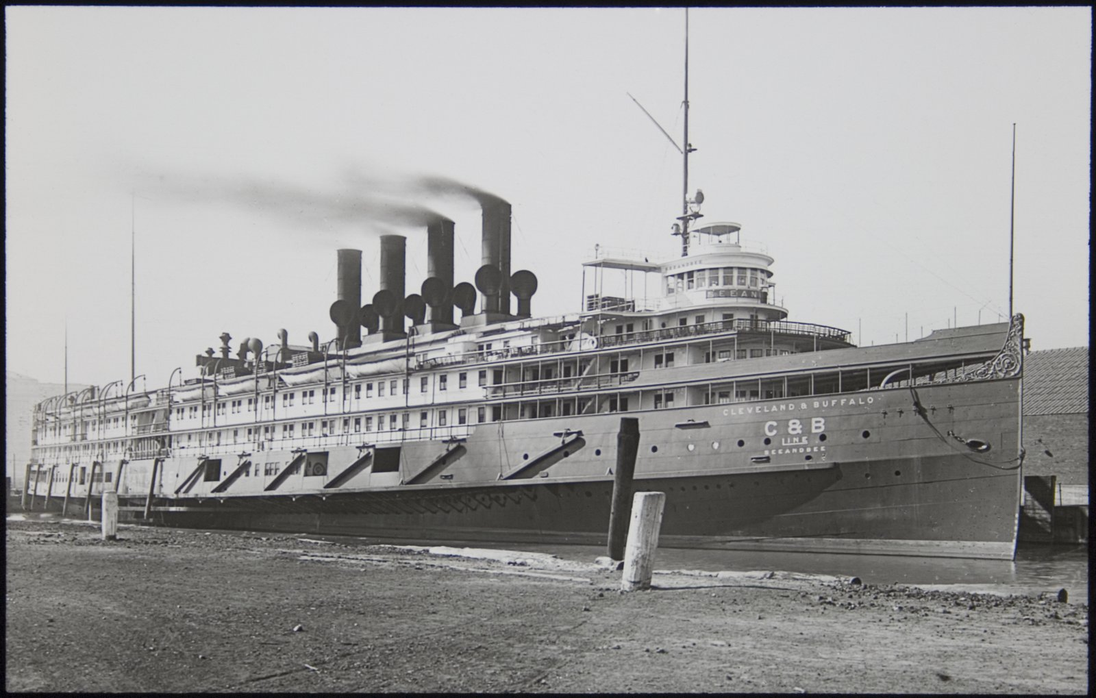 Magic lantern slide of the Cleveland and Buffalo Steamboat Line steamboat SeeandBee dated August 1919. This vessel was later converted to a training aircraft carrier, USS Wolverine (IX-64), for pilot training on the Great Lakes during World War II.